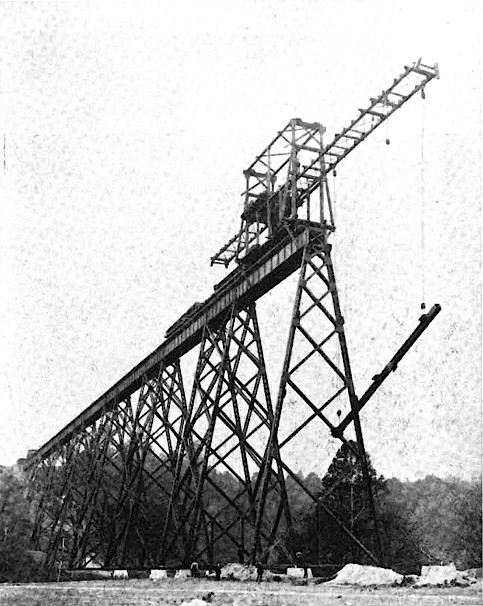 Construction of the Tulip Trestle (Greene County, Indiana), Indianapolis Southern Railroad, 1906